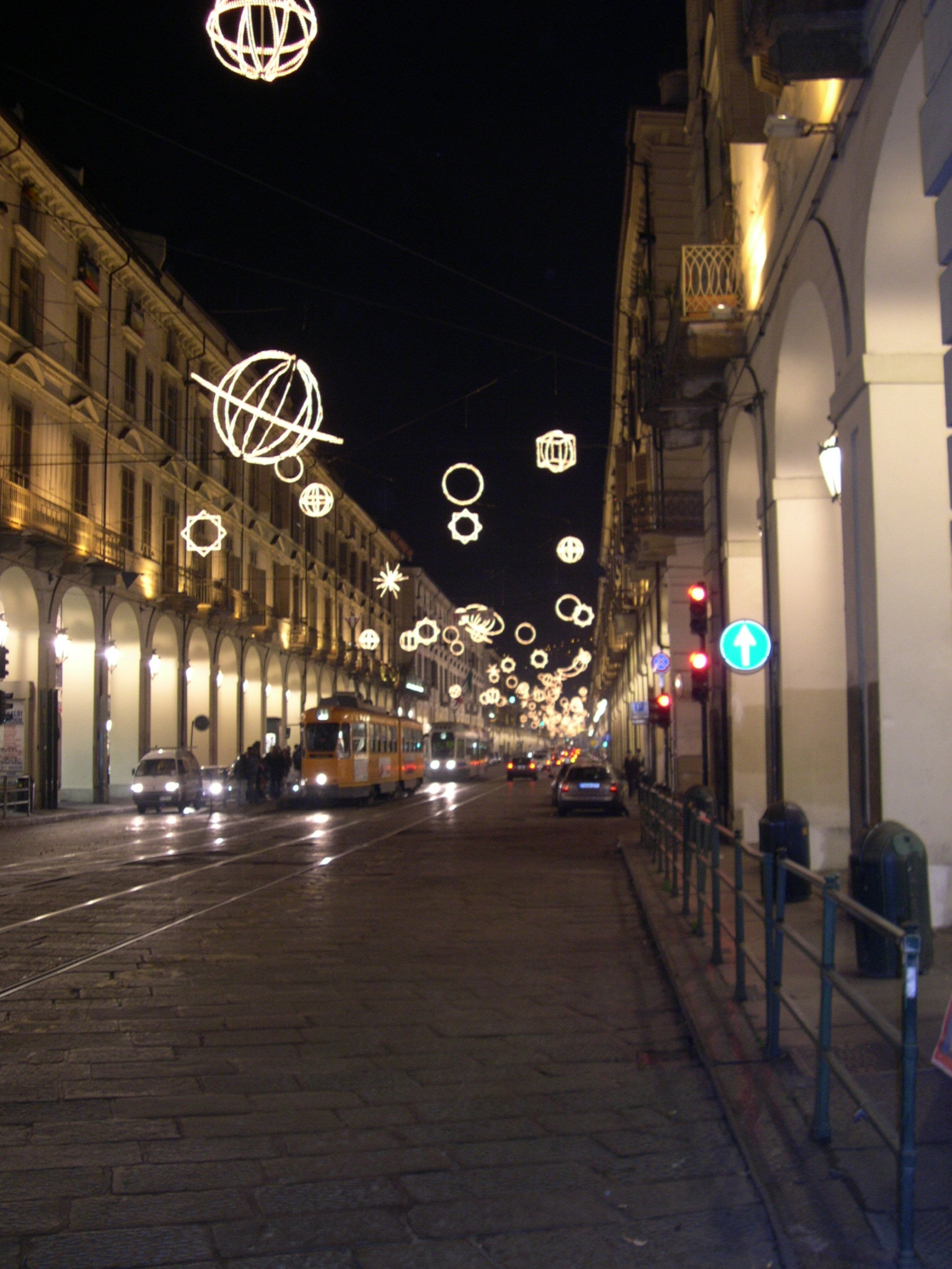 Torino (Piemonte, Italy), Po street, viewed from Piazza Castello.